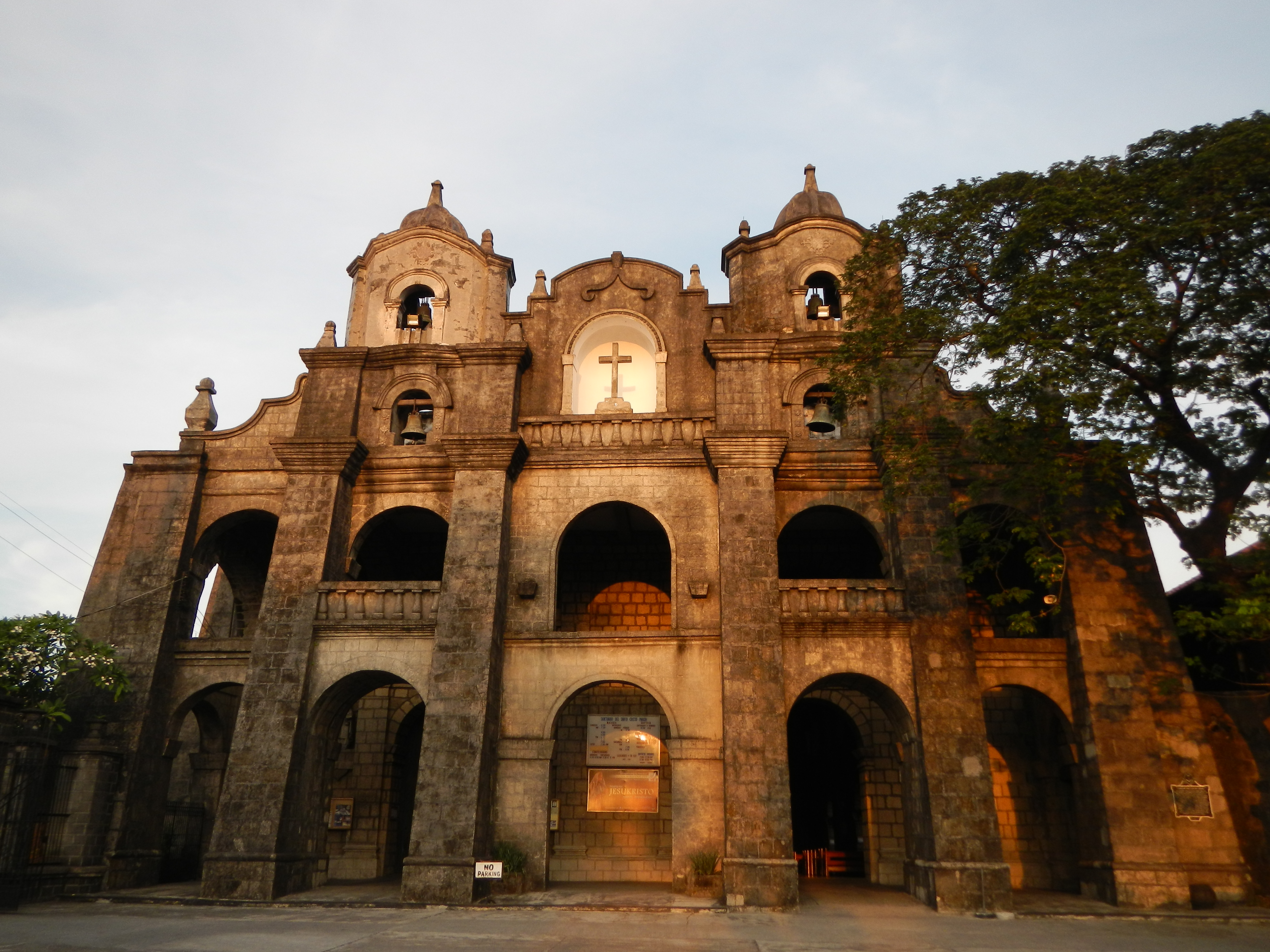 1602 Santuario de Santo Cristo Parish Church (Church of Santo Cristo), the Church of San Juan del Monte, of The Roman Catholic Archdiocese of Manila or Archdiocese of Manila (RCAM),[1][2] 183 F. Blumentritt 1500 San Juan City, Metro Manila Parish Priest: Fr. Jesus C. Prol, OP, Parochial Vicar: Fr. Rafael G. Carpintero, OP, Established: March 4, 1942 District: Makati Vicariate: Saint John the Baptist Vicar Forane: Fr. Jose Vidamor B. Yu, LRMS Feastday: May 3 Titular: Santo Cristo Immediate Preceding Parish Priest: Fr. Ramon Perez, OP, 1985–1993[3][4][OP] Order of Preachers (E-1587) Vicariate of the Holy Rosary Province (E-1978) Vicar Provincial Fr. Eladio Z. Neira, OP[5]List of religious buildings in Metro ManilaSan Juan